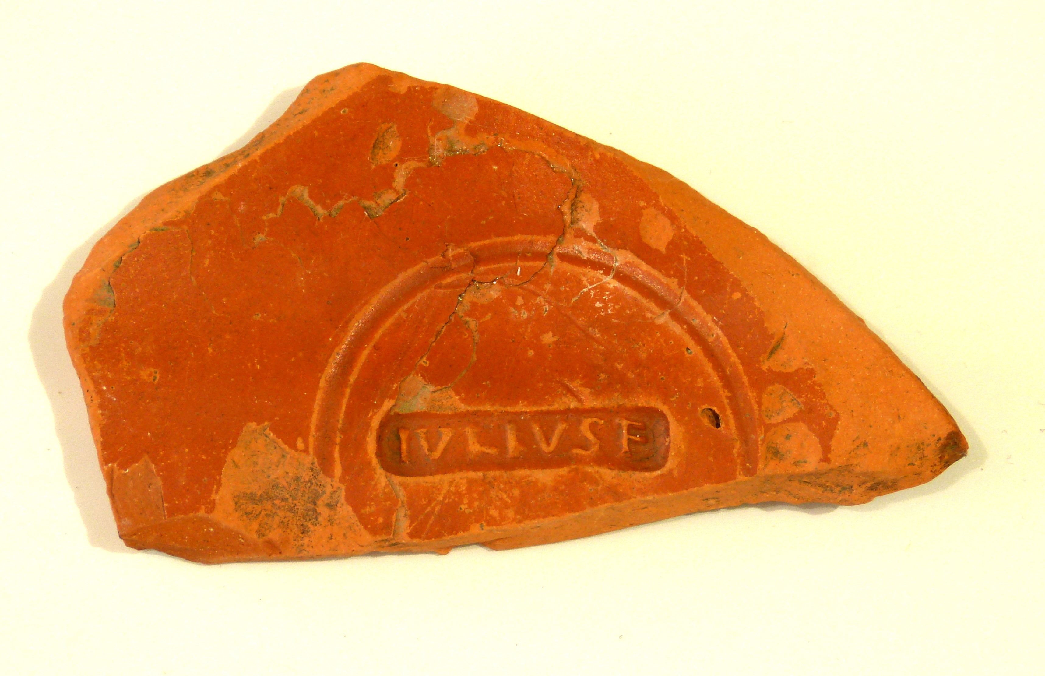 Weiltingen ( Bavaria ). Archaeological park Ruffenhofen: Limeseum - Fragment of Terra sigillata with potter's stamp IULIUSF.